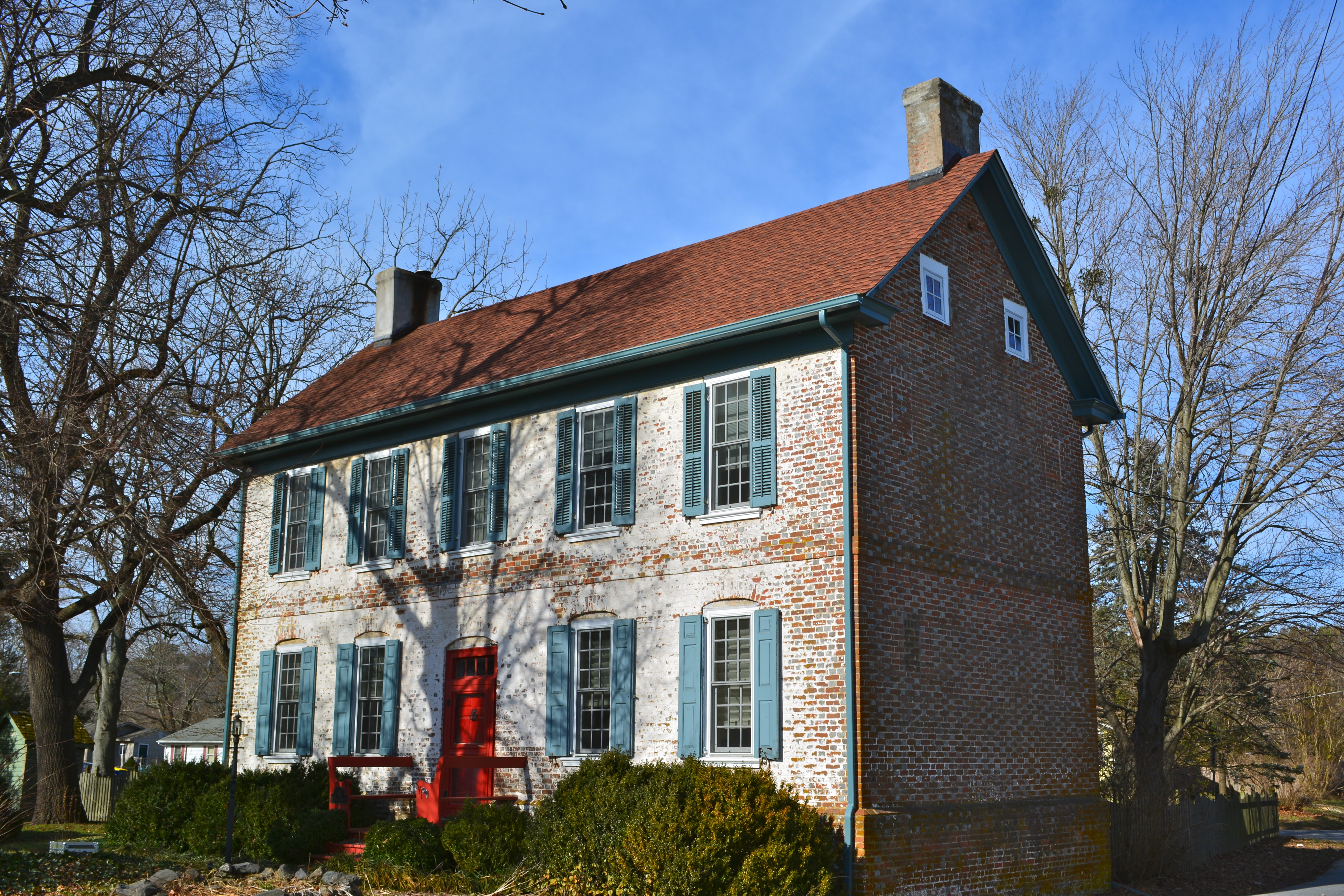 House in the Frederica Historic District, listed on the NRHP on November 9, 1977. This house is c. 1750. The district includes Market, Front, and David Sts. in Frederica, Kent County, Delaware